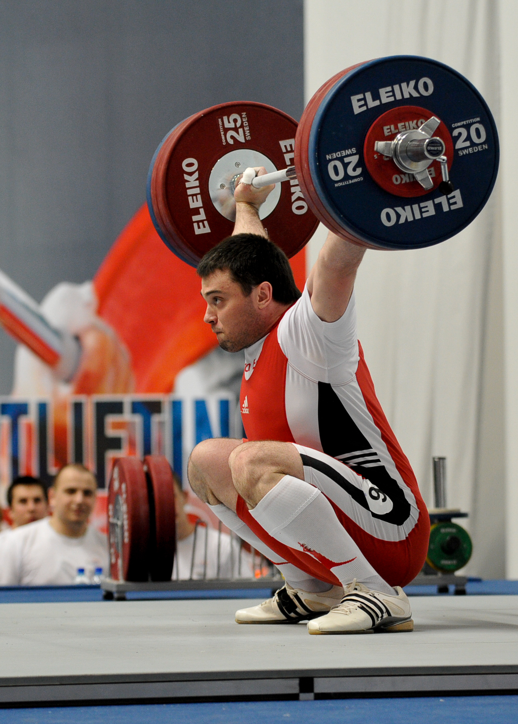 2011 EWC Kazan: TOROKHTIY Oleksiy (UKR)